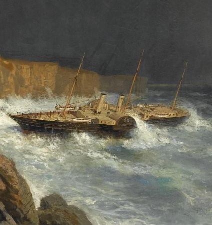 Fragment of the painting "Wreck of Livadia"